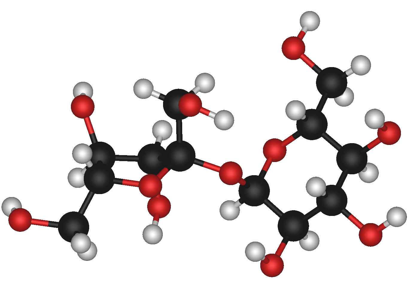 3D-model of a sucrose molecule